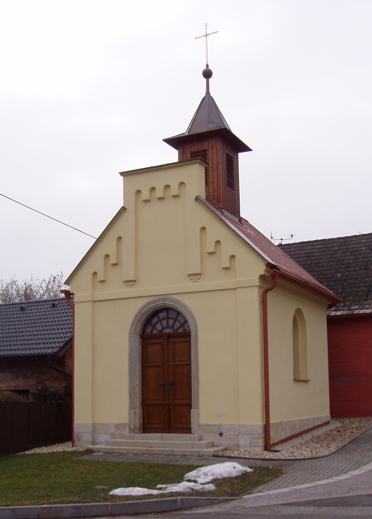 Říkov - chapel of Holy Guardian Angels